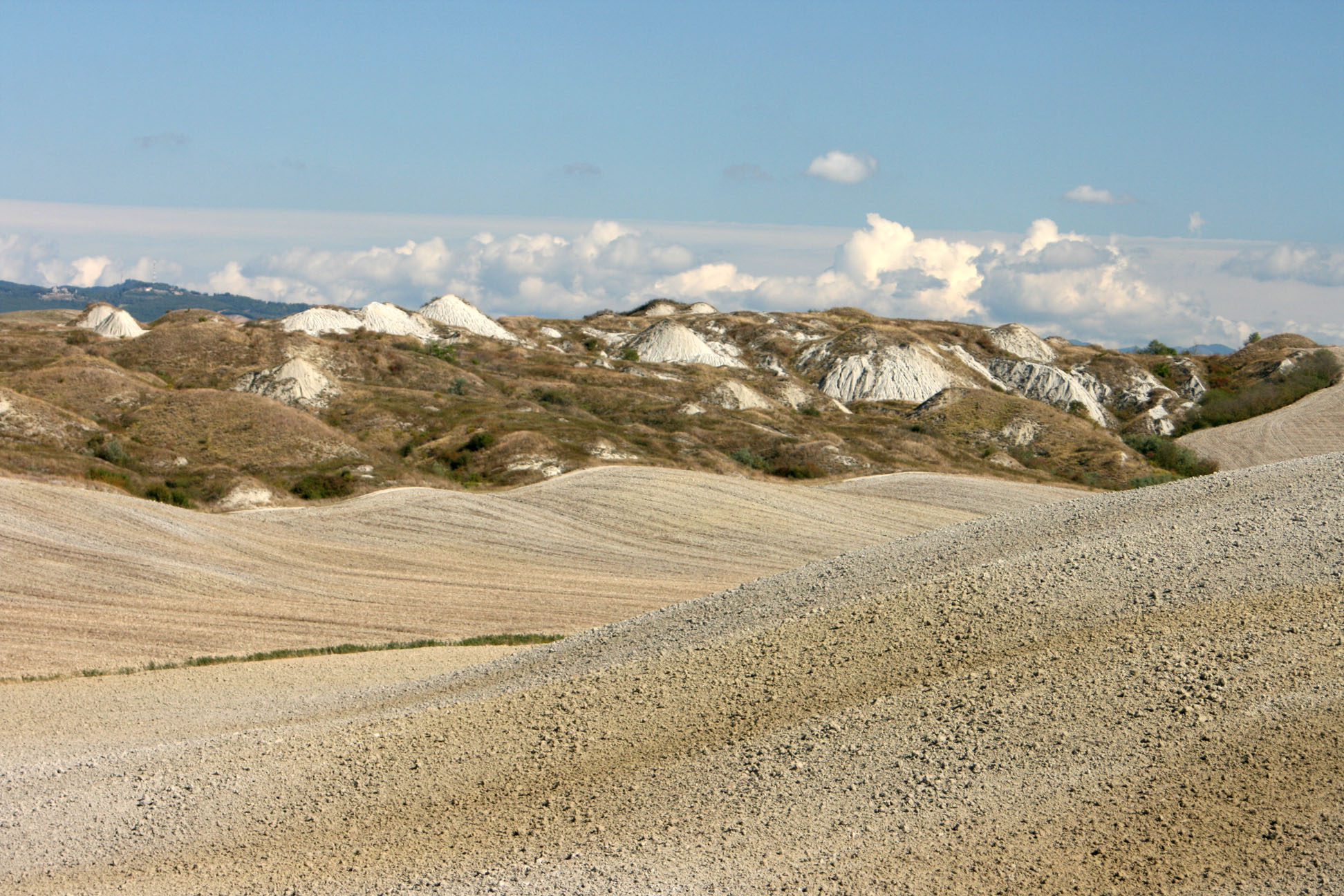 Crete Senesi (Italy: Tuscany): Biancane hills in the badlands of Accona Desert